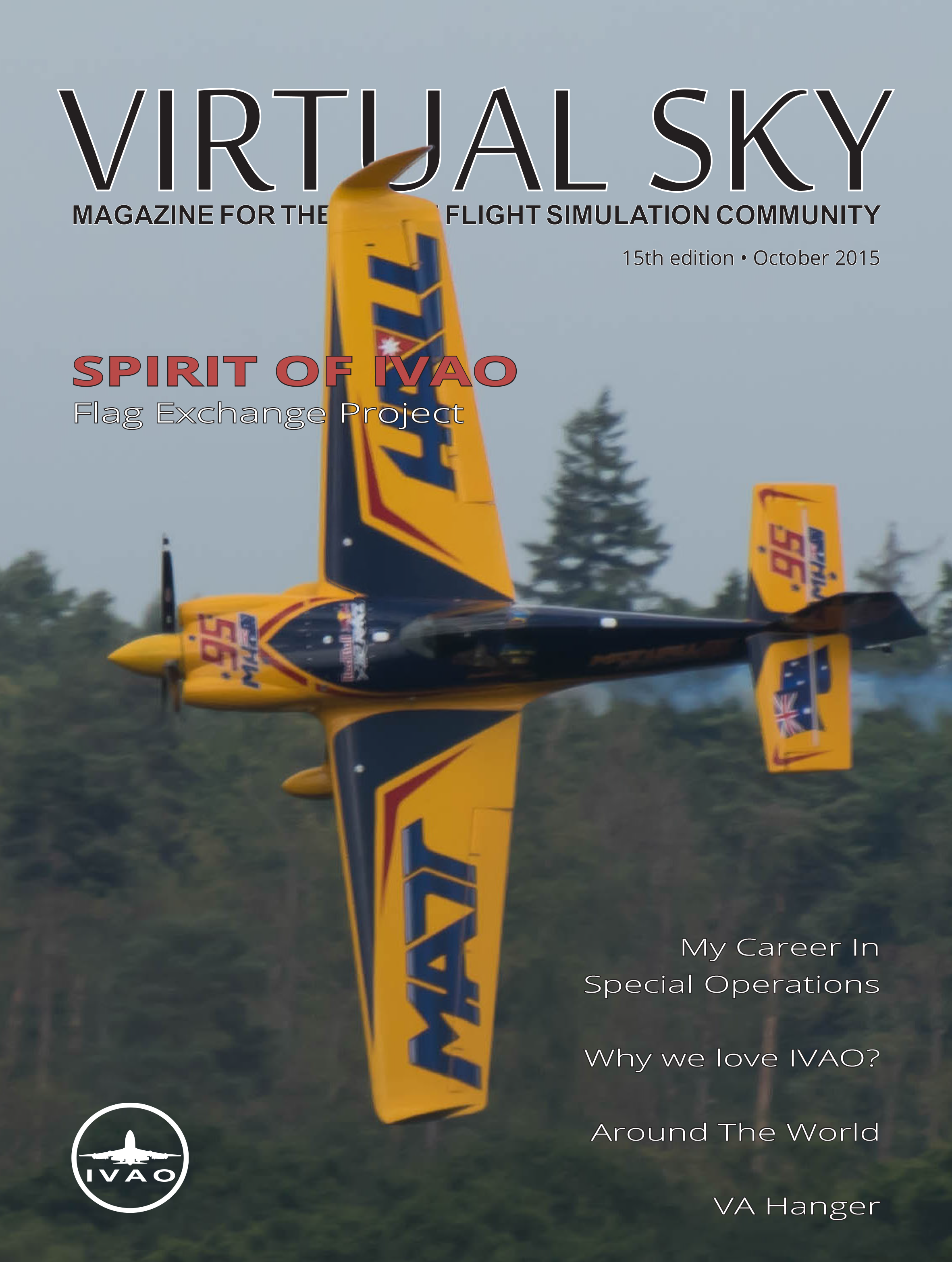 Virtual Sky Cover October 2015